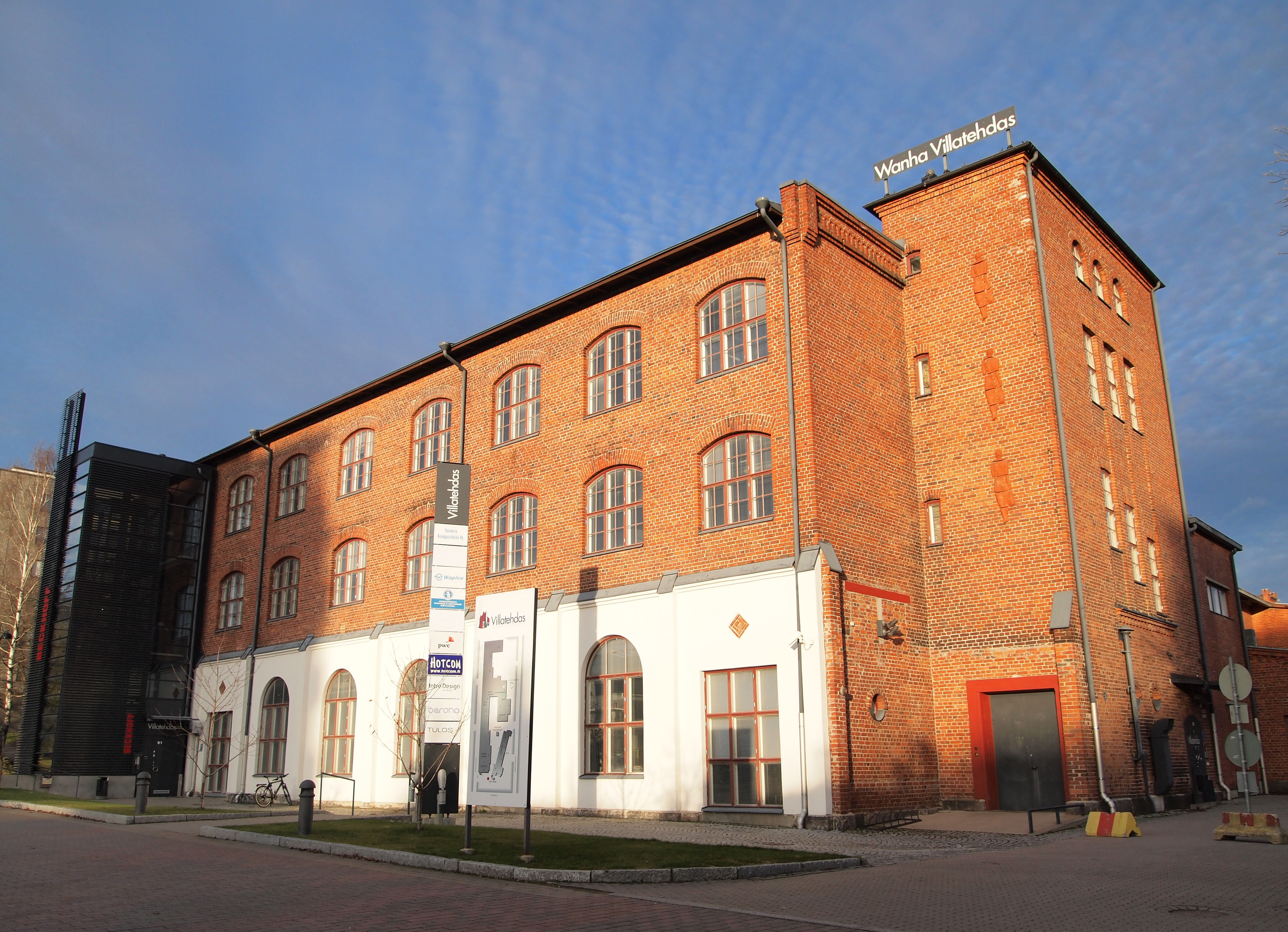 Building "Wanha Villatehdas" in Hyvinkää. This photograph was taken with a Olympus E-PL1.